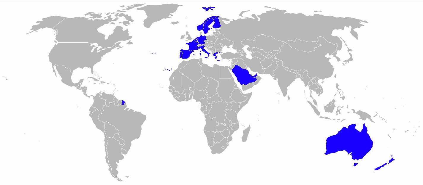 NHIndustries NH90 Operators 2010 (current in blue - former in red)